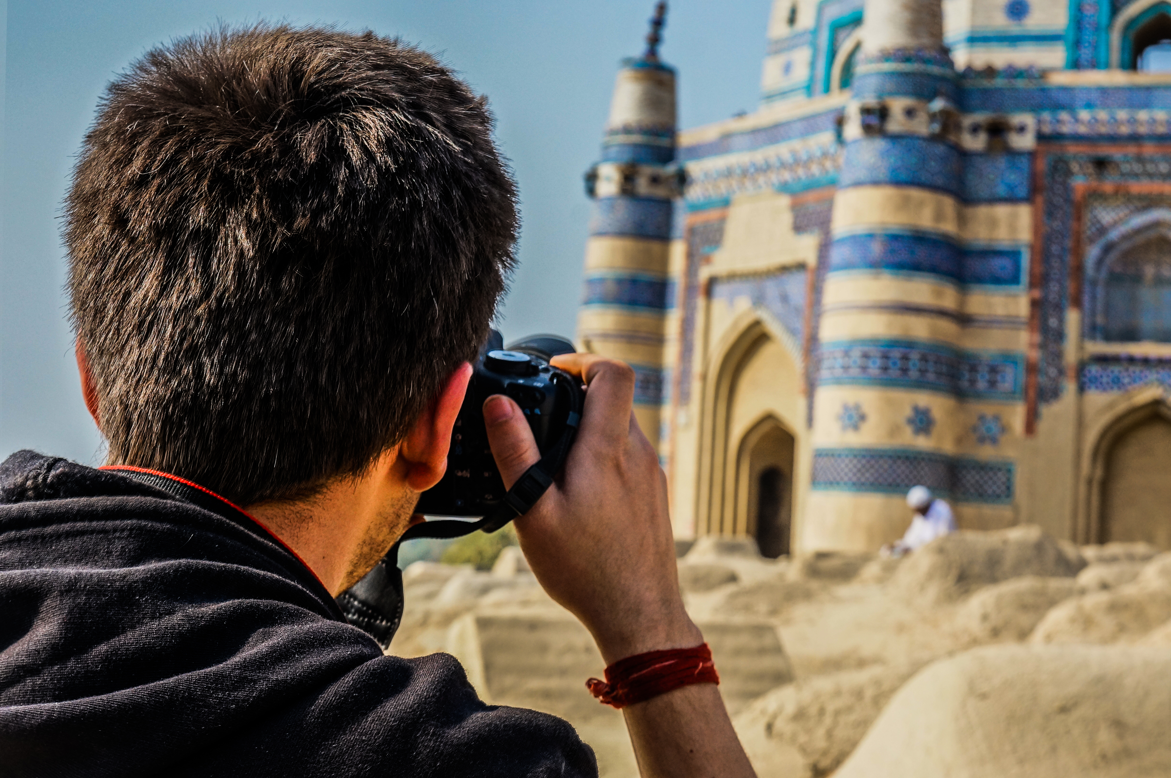 A man captures a photo of the tomb of Bibi Jawindi in Uch Sharif. This is a photo of a monument in Pakistan identified as the PB-17